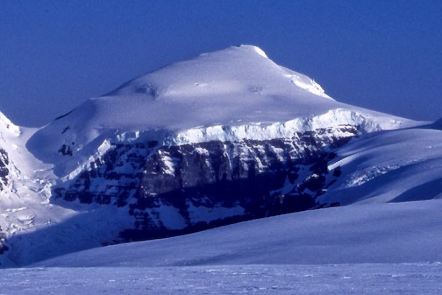 North Twin Peak from the usual Columbia Icefield approach up the Athabasca Glacier (South Twin Peak is just to its left).